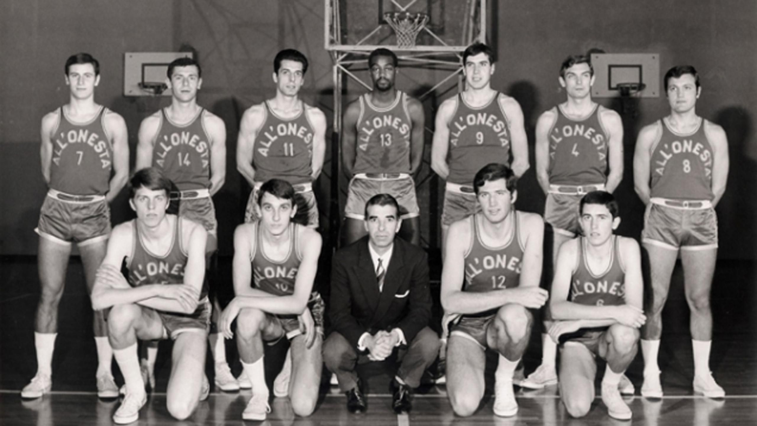 Milan, Italy. Line-up of Pallacanestro Milano 1958, know for sponsorship reasons as All'Onestà Milano, in the 1968–69 season. From left to right, standing: Abonico, De Rossi, Gatti, Isaac, Zanatta, Vatteroni, Bulgheroni; crouched: Nizza, Bertolotti, Tracuzzi (coach), Bovone, Gurioli.